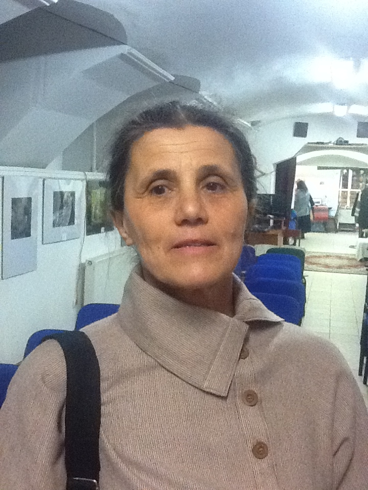 Hungarian artist Agnes Marsai, in Budapest's Ket hollos gallery after the opening of her exhibition